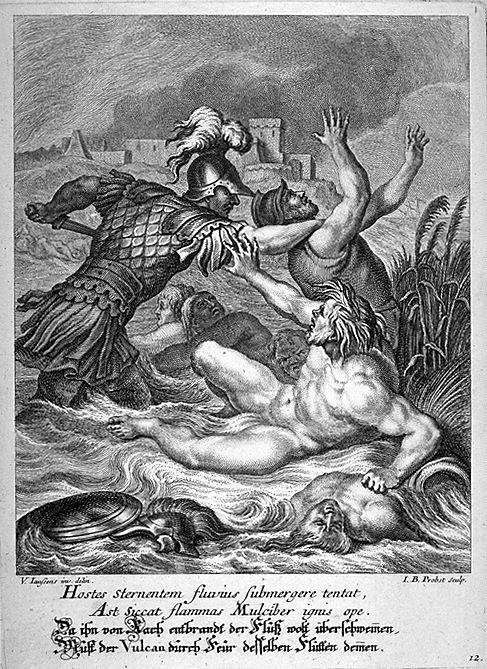 Achilles fights by the river, 18th century engraving-etching Johann Balthasar Probst (1673 - 1748) Fine Arts Museums of San Francisco.